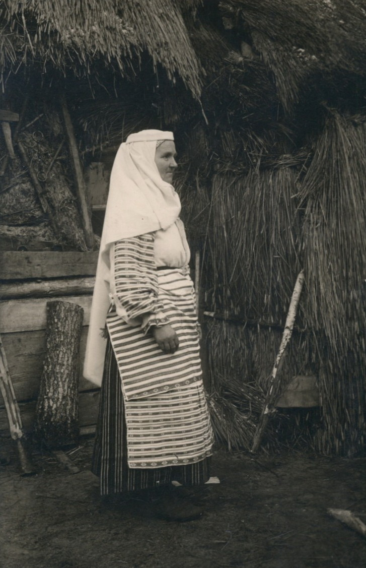 Belarusian peasant woman in traditional clothing. The village of Lipava in Kobrin district (Western Belarus). Photo before 1938 AD.